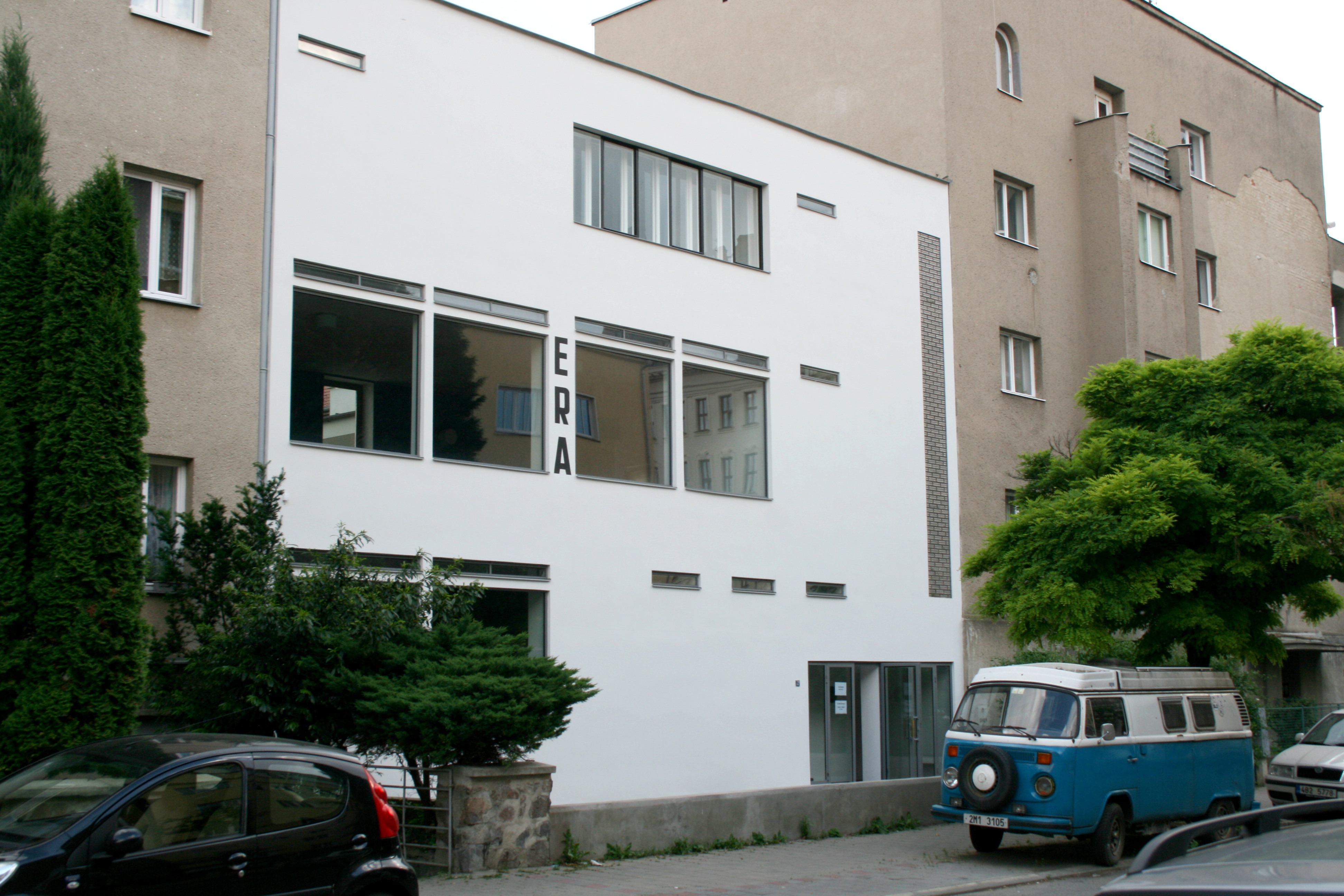 Café Era, functionalist building by Josef Kranz, Brno, Czech Republic.